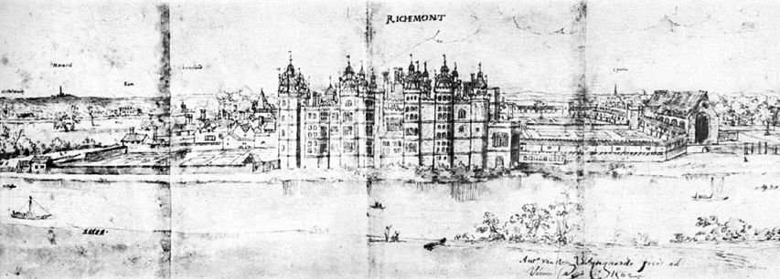 Signed in lower right-hand corner: Antony van den Wyngaerde fecit ad.....1562 Drawing of Richmond Palace, South-West Front, from across the River Thames, by Wyngaerde, 1562. (Date as signed by artist). Ashmolean Museum, Oxford, cat.no. WA.C.LG.IV.12b. (Here cropped at sides). The Ashmolean also holds a view of the North-East Front by the same artist, cat.no. WA.C.IV.II.54. (Referred to in Victoria County History, Surrey, vol.3, Richmond, where the position of the Wardrobe Gateway, on the east side, is discussed.)